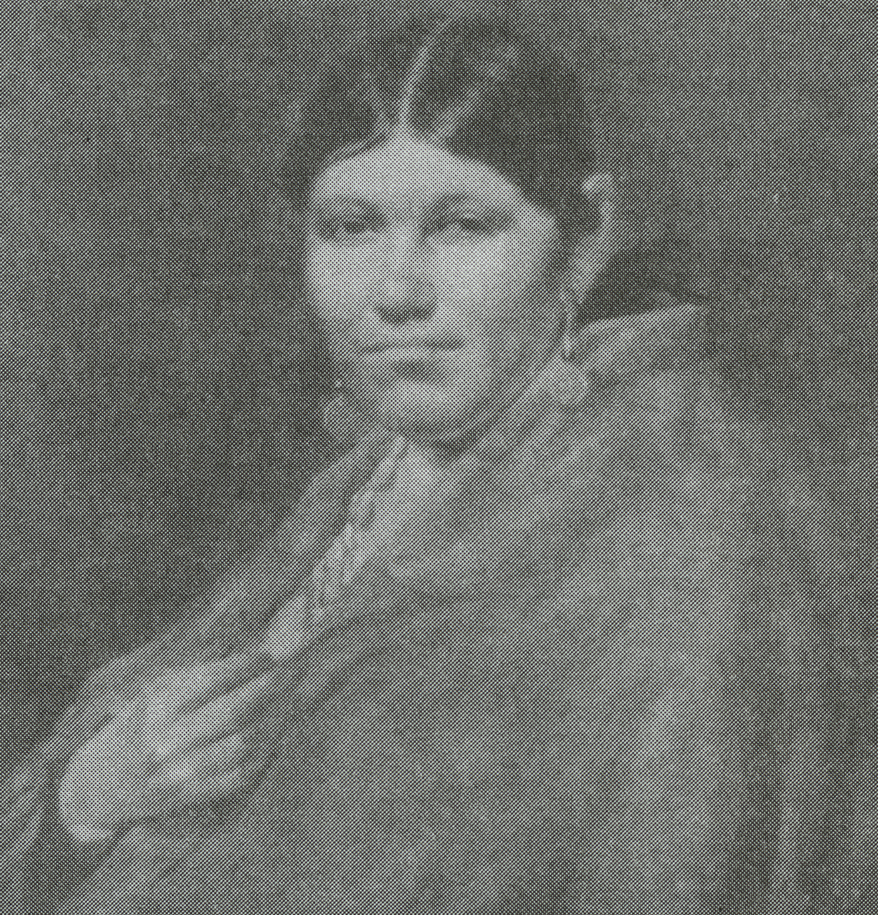 Cherokee Woman by Edward Troye. Painted between 1833-1874.